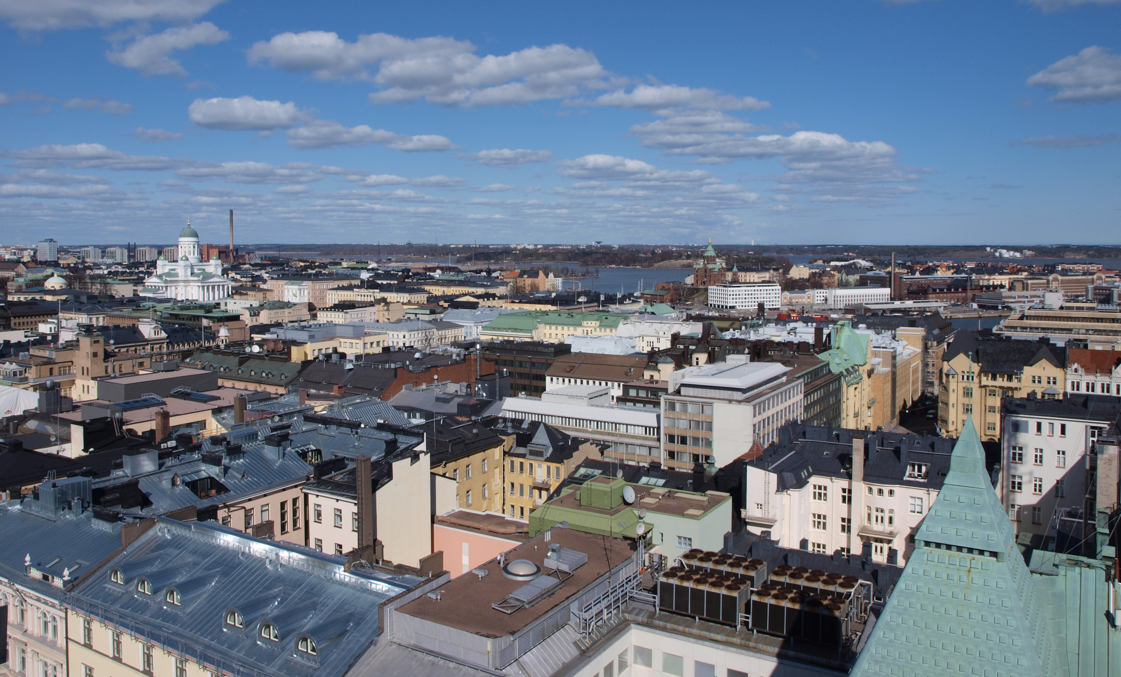 Skyline of central Helsinki, as seen from the roof of the Erottaja fire station.